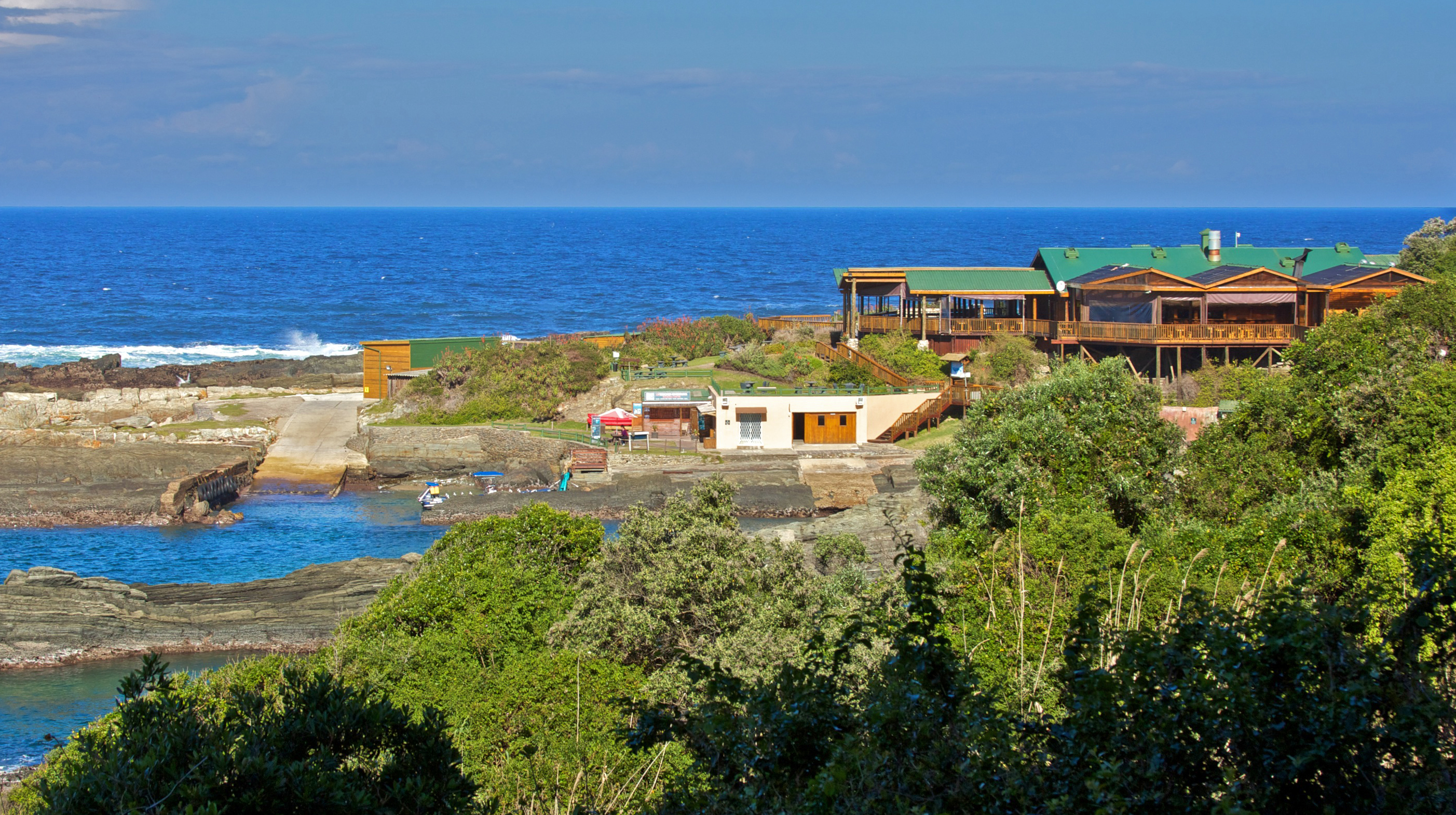 Storm's River campsite in Tsitsikamma National Park, South Africa